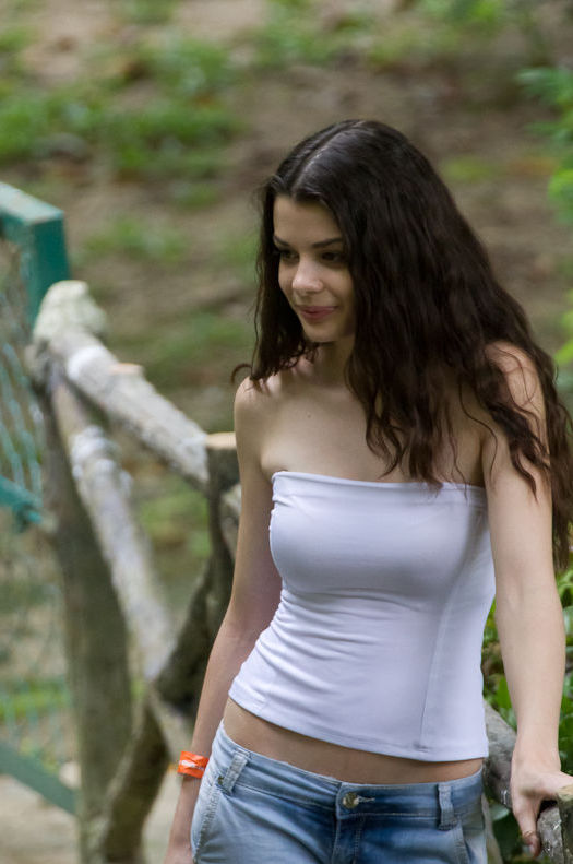 A woman visitor at Kuala Lumpur Bird Park, Malaysia. She is wearing a white tube top and jeans. 1/250 sec at ƒ / 5.6 @ ISO 3200